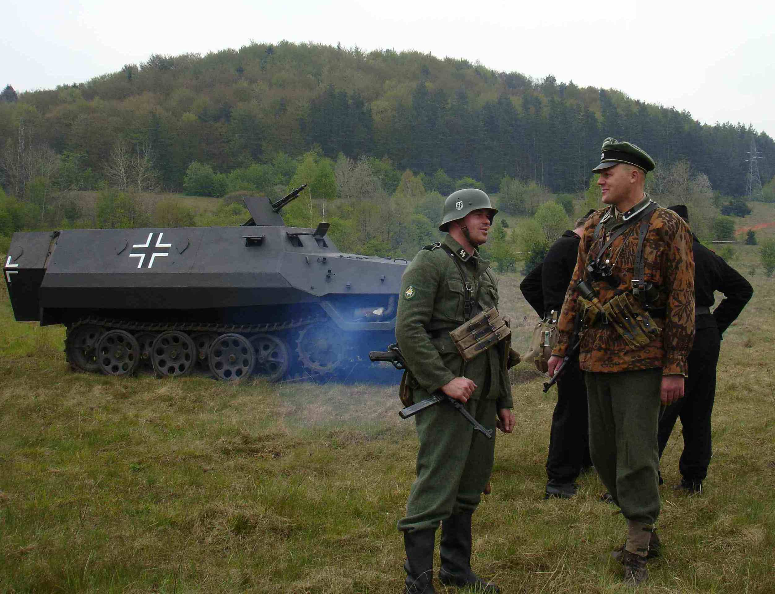 28e division SS Wallonie (reenacting) Sanok, Poland, Mai 2007